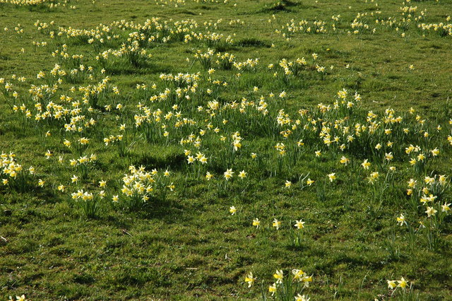 Wild daffodils, Broom's Green This corner of north-west Gloucestershire near the Herefordshire border is renown for its wild daffodils, these are in a field beside the Poet's Path II just south of Broom's Green.